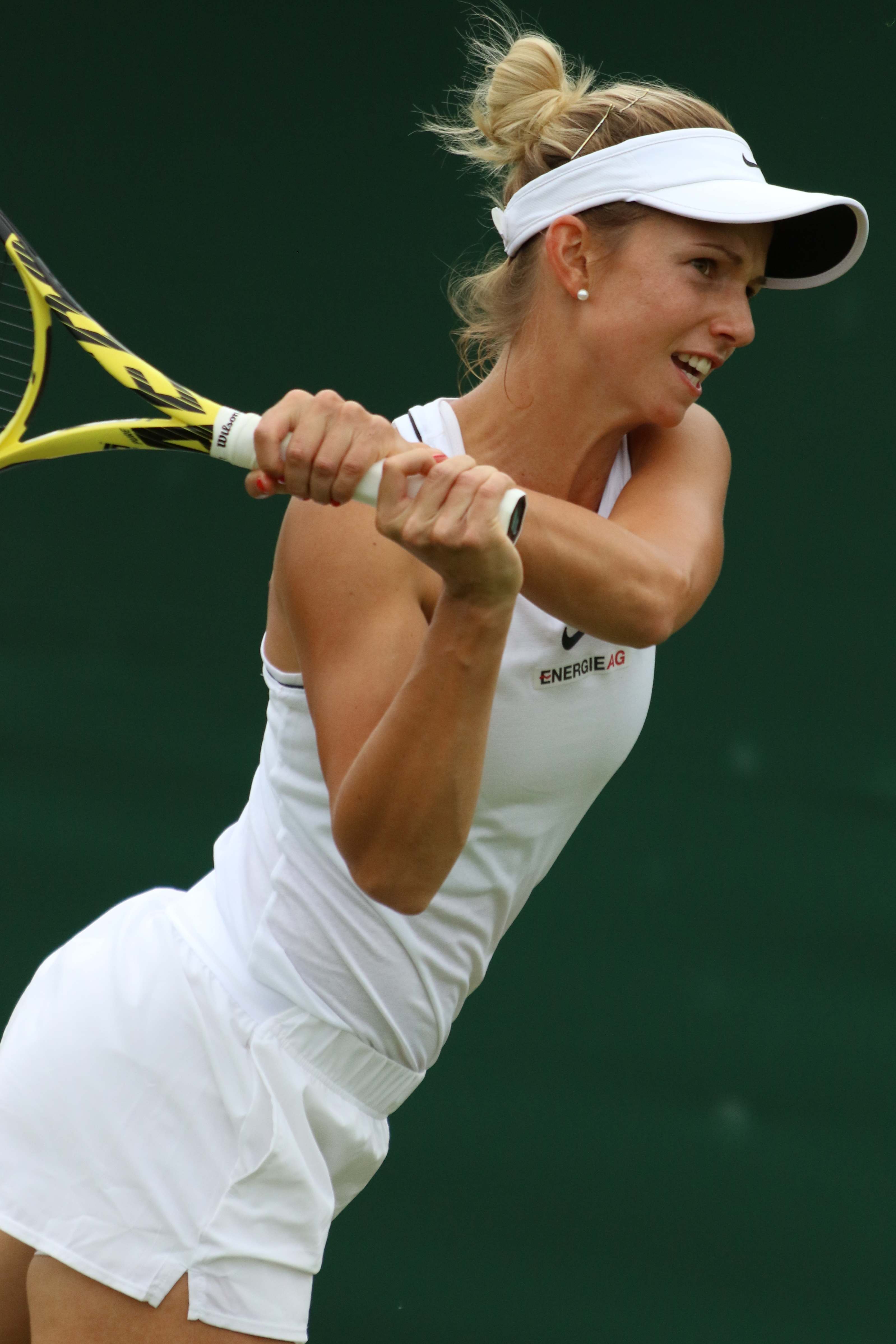 2019 Wimbledon Qualifying Tournament.